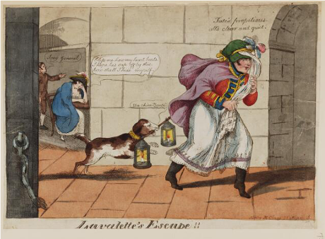 British political cartoon; The Count de La Valette escapes from prison by exchanging clothes with his wife